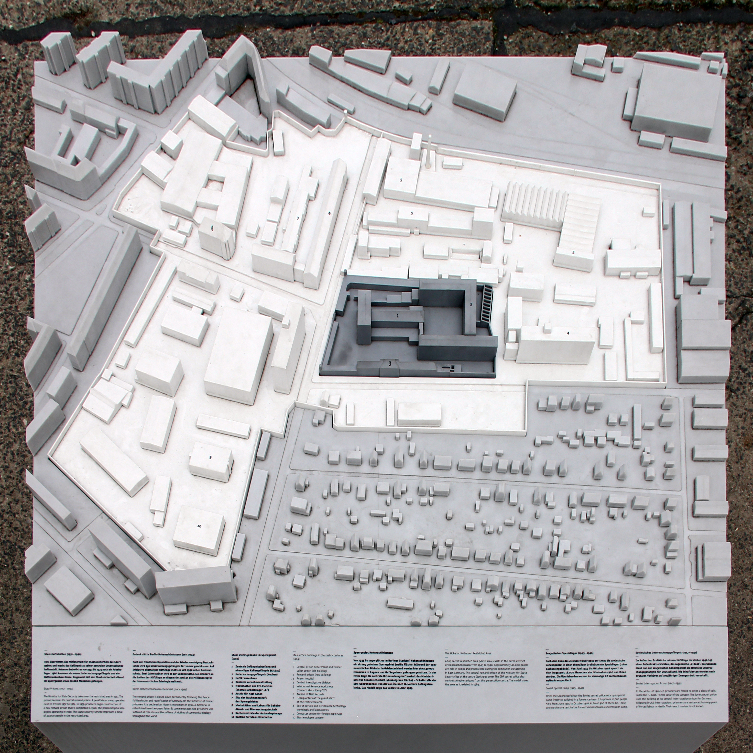 Memorial plaque, Gedenkstätte Berlin-Hohenschönhausen, Genslerstraße 66, Berlin-Alt-Hohenschönhausen, Germany